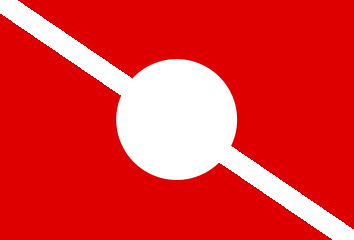 Compañía General de Tabacos de Filipinas - House flag during the last phase of the shipping company.